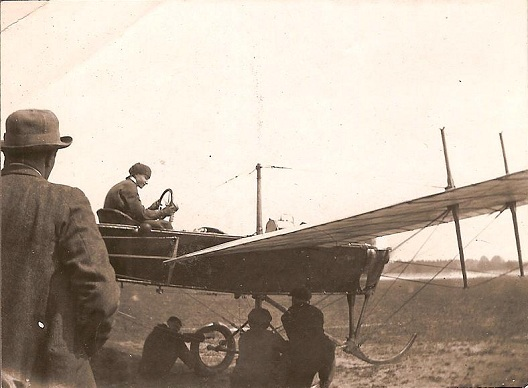 Photo believed to have been taken at Brooklands in the summer of 1911.